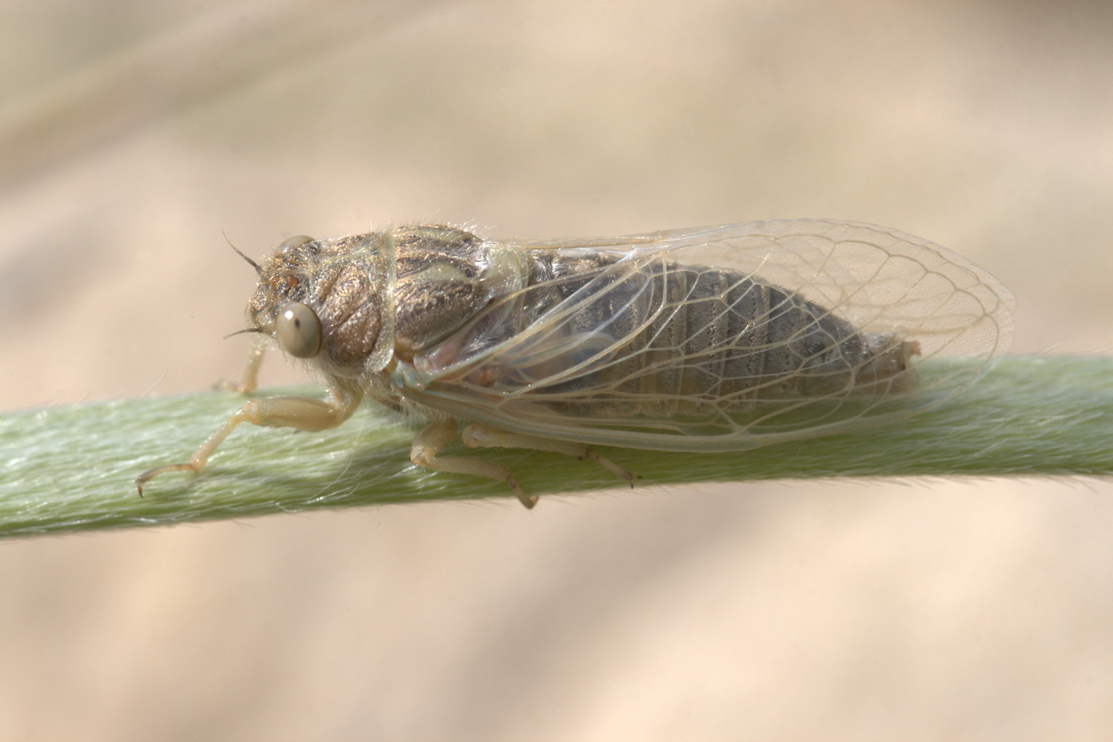 Sylphoides arenaria at Kioloa beach, NSW, Australia.